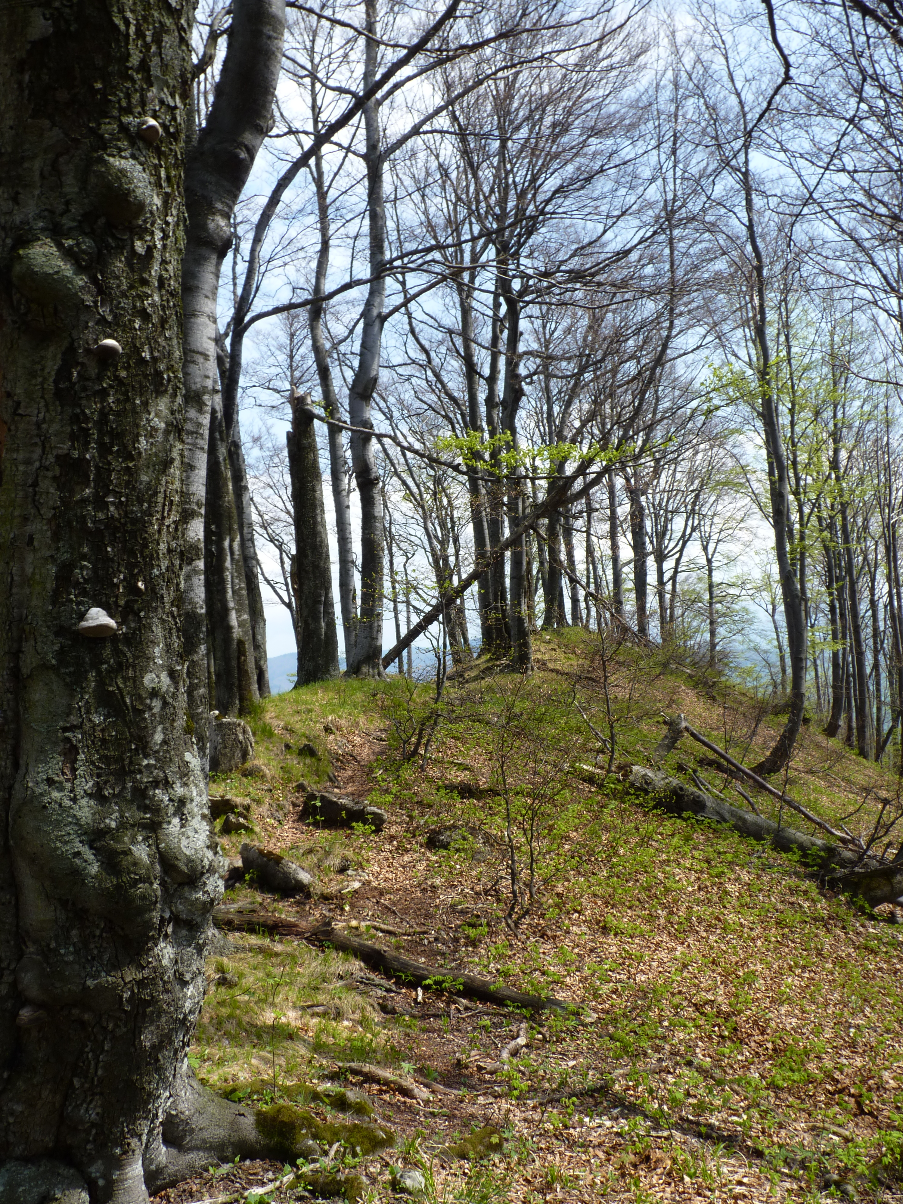 Natural monument Majerova skala. Great Fatra, Slovakia